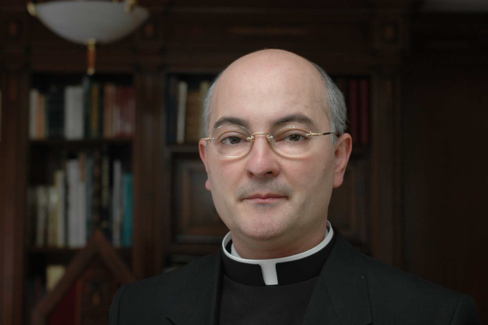 Padre Fortea, Fr Fortea